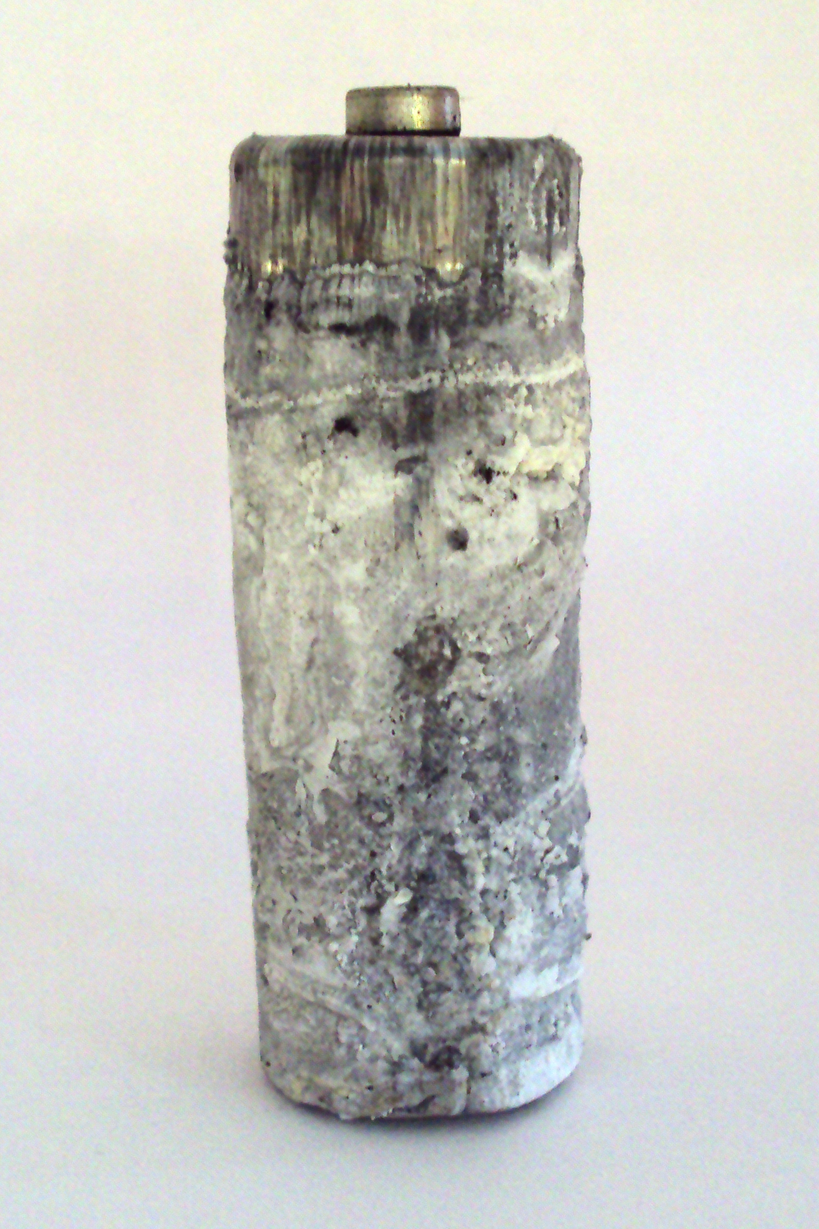 Corrosion in a zinc-carbon cell: the white and corrosive zinc chloride is formed by ammonium chloride leakage.